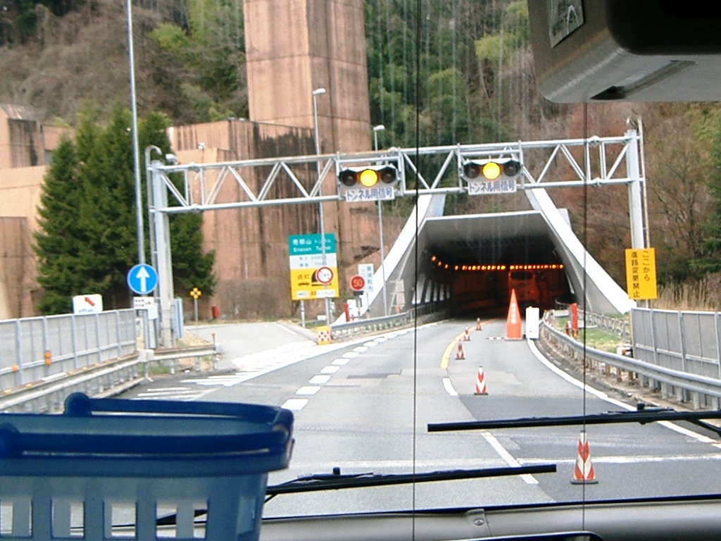 Enasan Tunnel on the Chuo Expressway outbound line for Nagoya